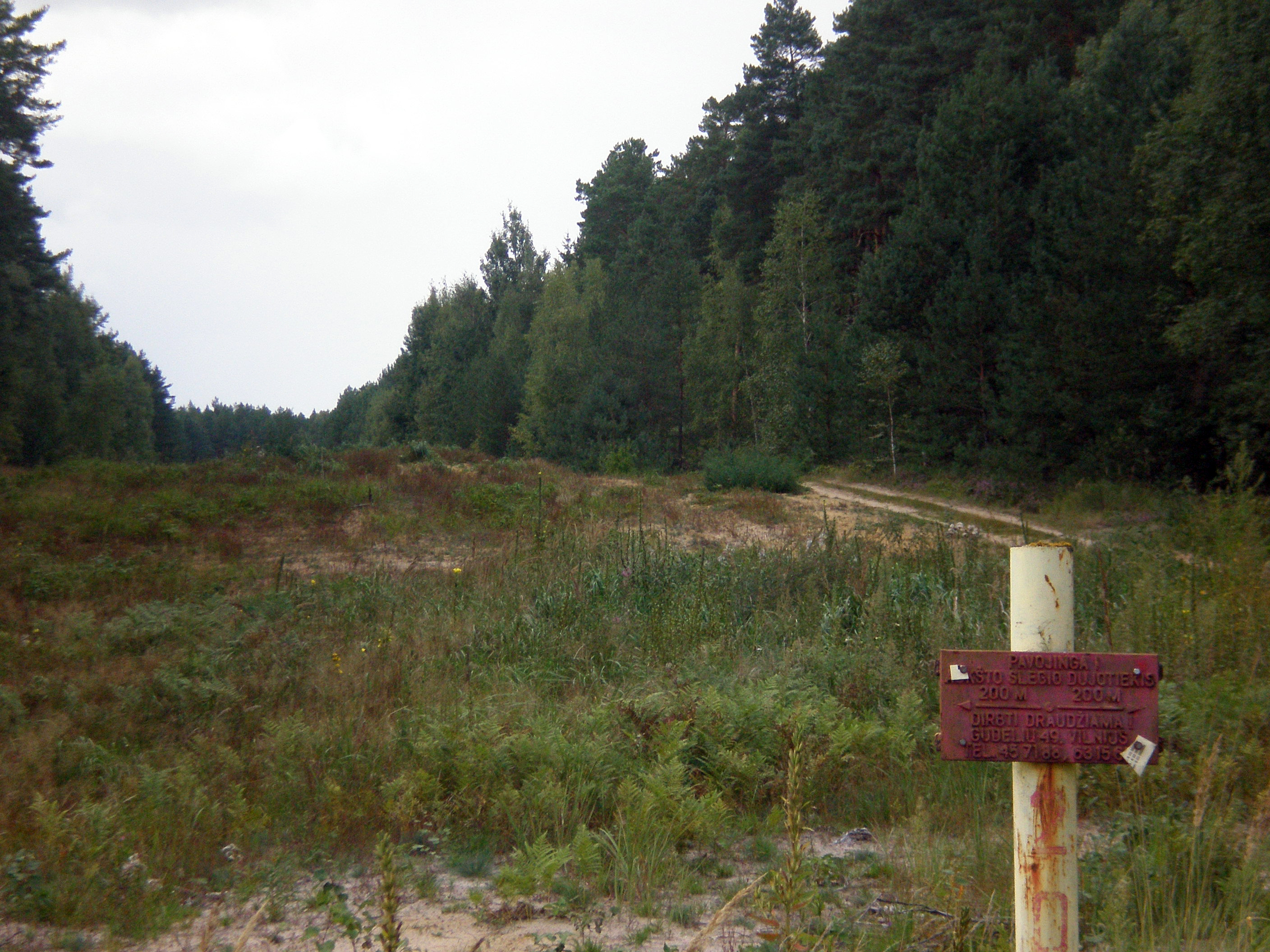 High pressure gas pipe